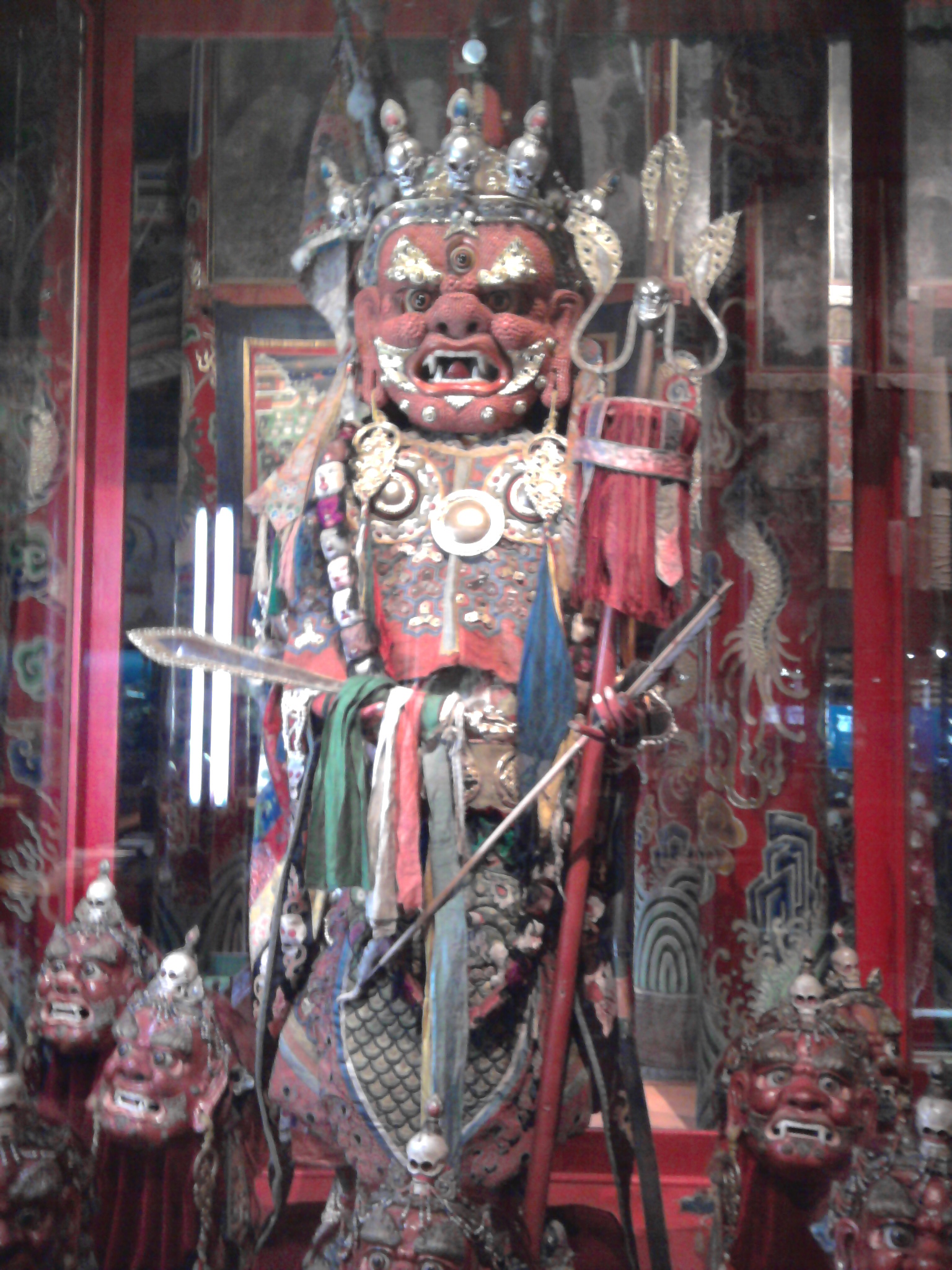 Пунцаг-Осорын бүтээл Жамсран буюу Улаан сахиус